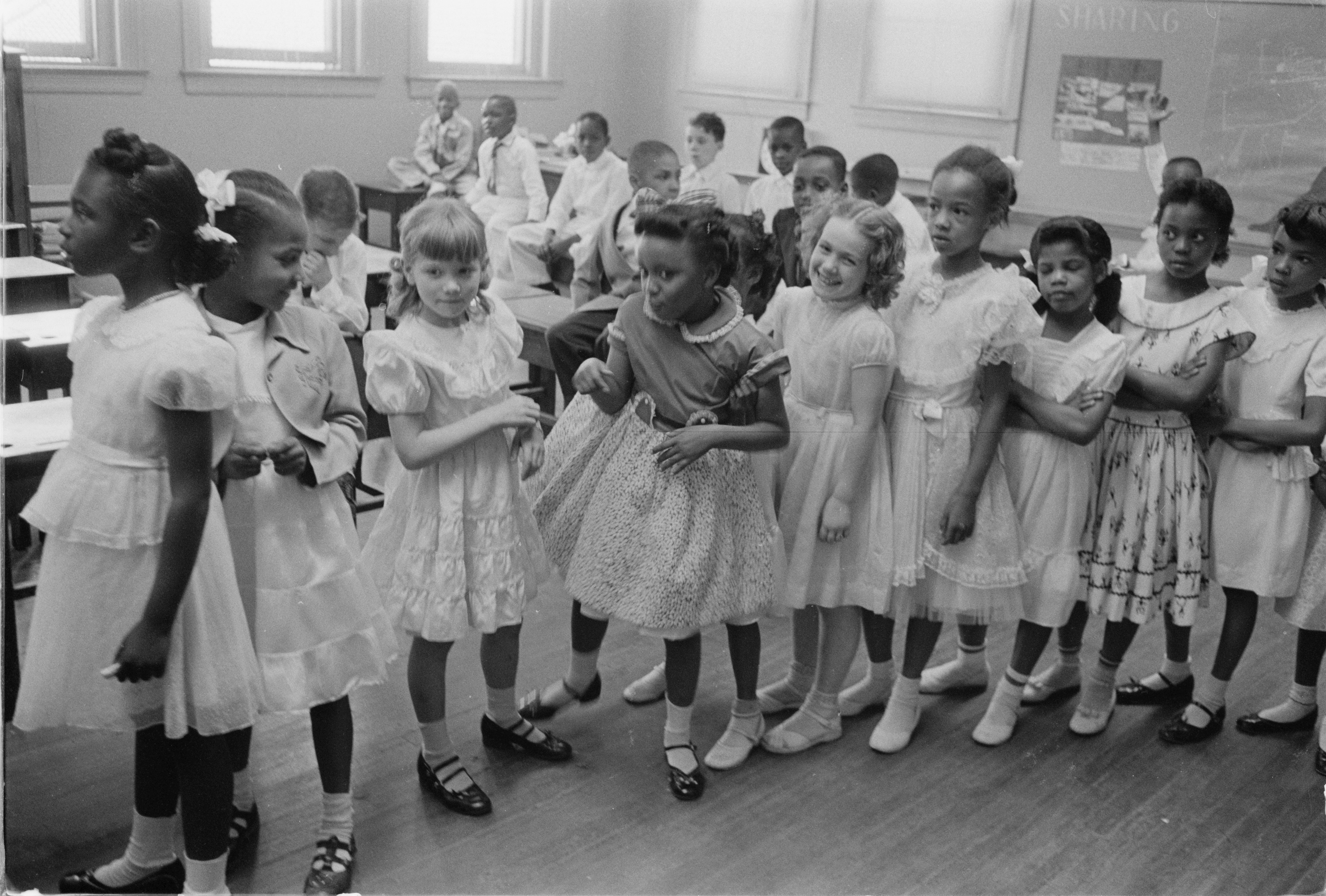 Thomas J. O'Halloran. School integration, Barnard School, Washington, D.C., 1955.